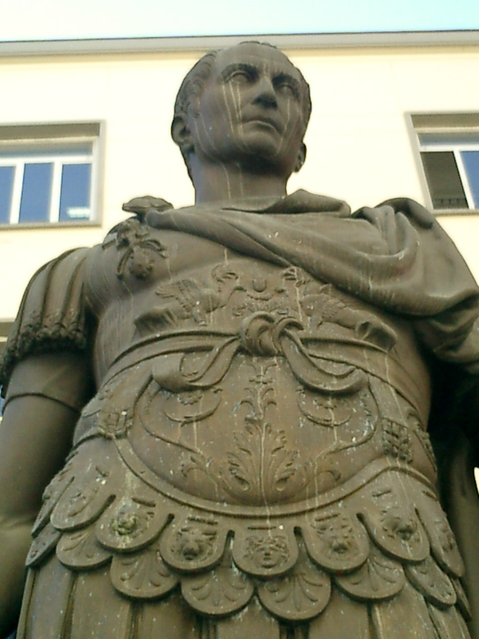 Statue of Julius Caesar in front of the Liceo Classico Statale "Giulio Cesare", in Rome (Italy). *